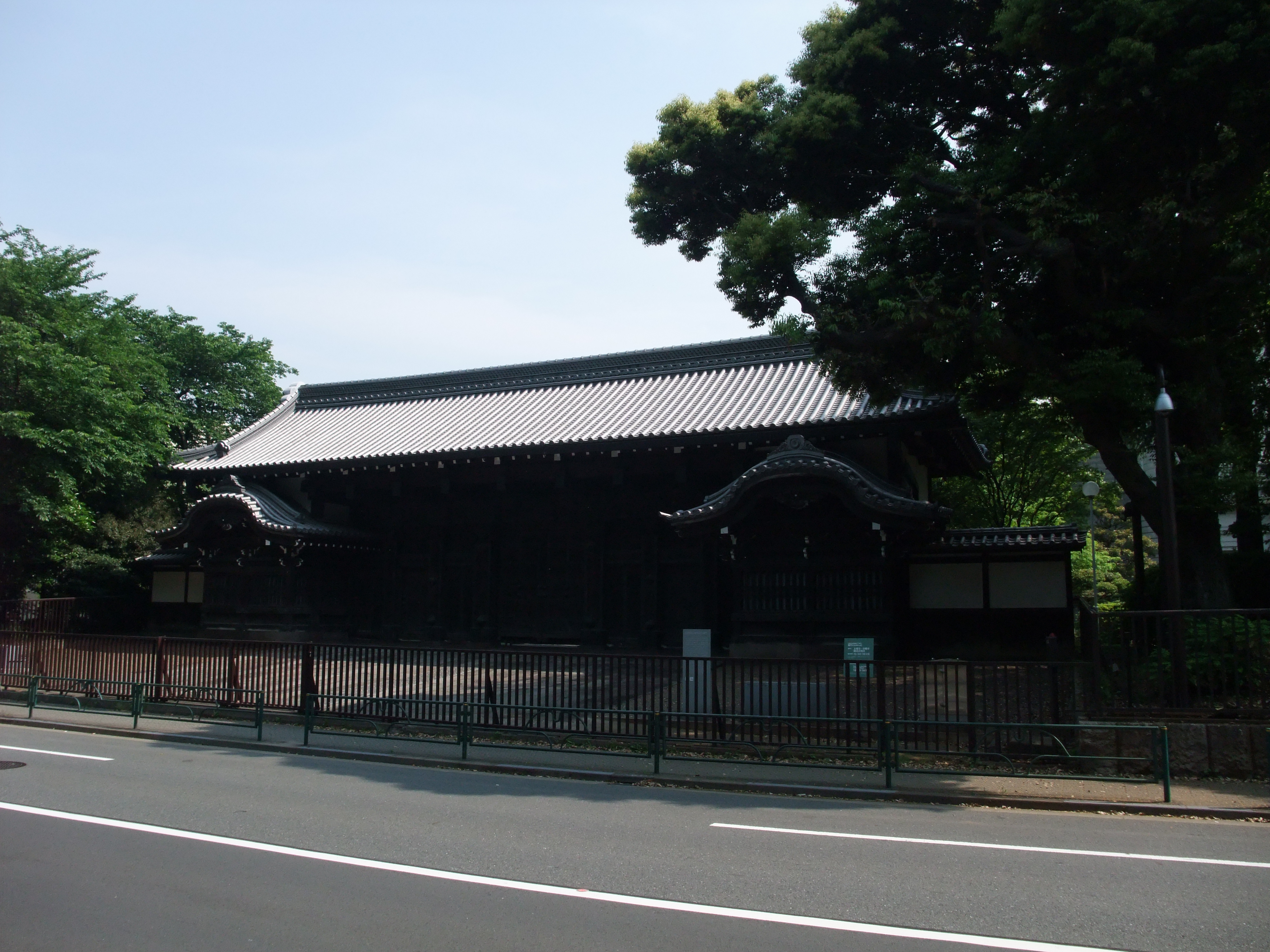 front gate of the Tottori Ikeda clan's Edo above residence(Japan's national important cultural property) in Ueno park